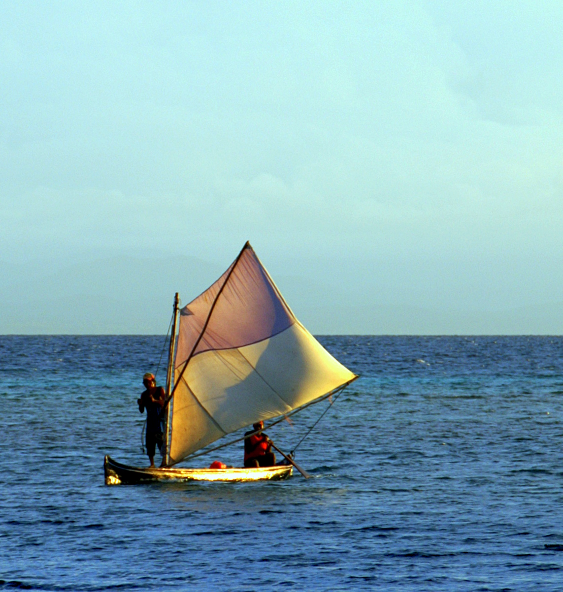 Men of the Kuna (people) tribe, sailing.